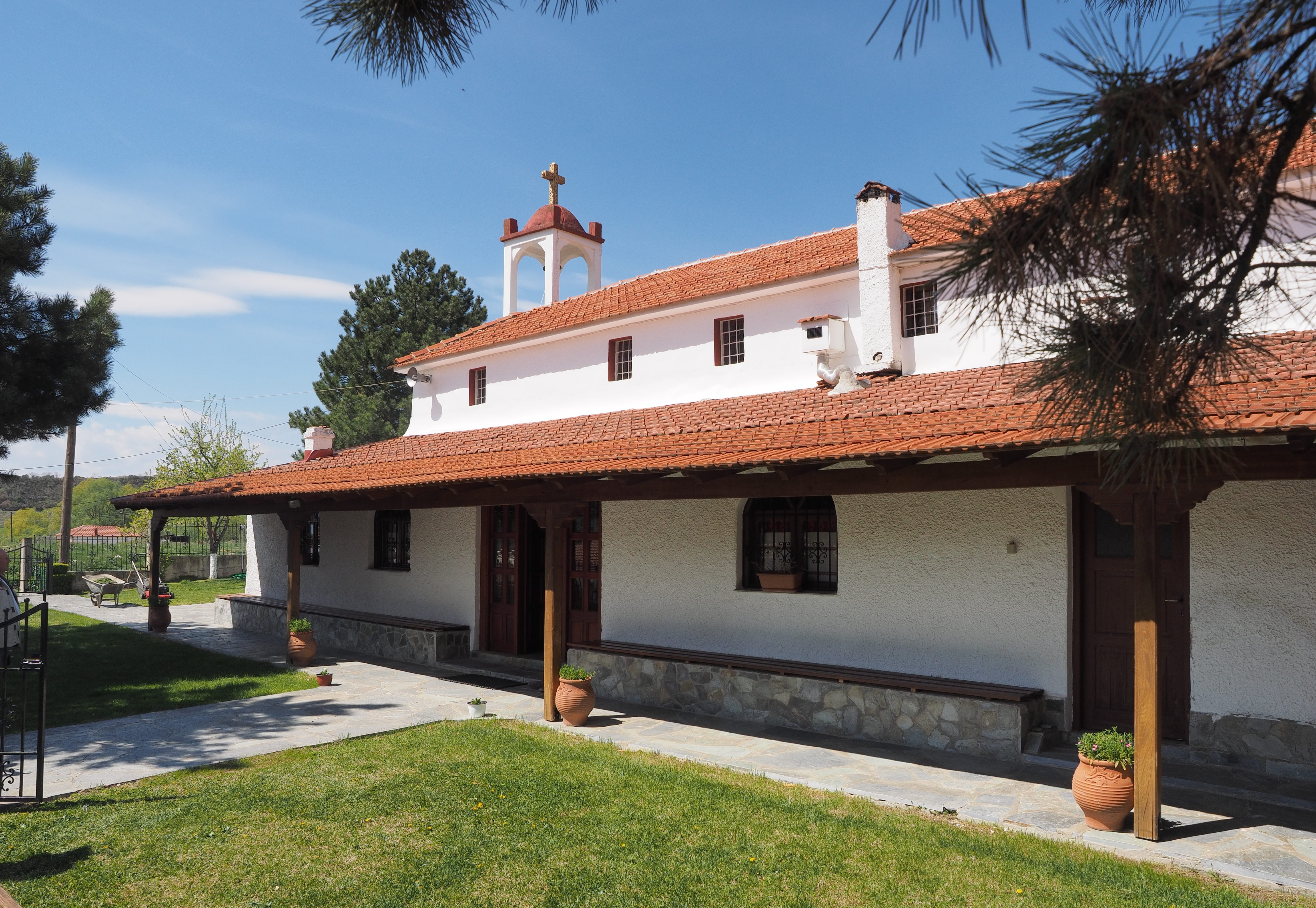 Agios Nikolaos, Skopos (Lerin) Српски (ћирилица): Црква Ајос Николајос (1876), село Скопос, Лерин. Грчка